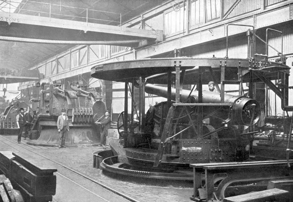 Photograph showing 6-inch Mk IV or VI gun on Elswick disappearing mounting in the Royal Carriage Factory. The gun appear to be a Mk IV or VI 6-inch gun.